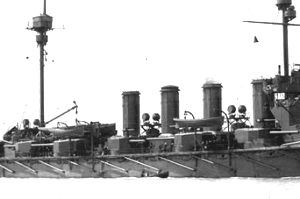 Photograph showing starboard secondary battery 7.5 inch guns of British armoured cruiser HMS Minotaur. This is a clip from File:HMS Minotaur USNHC NH 60086.jpg